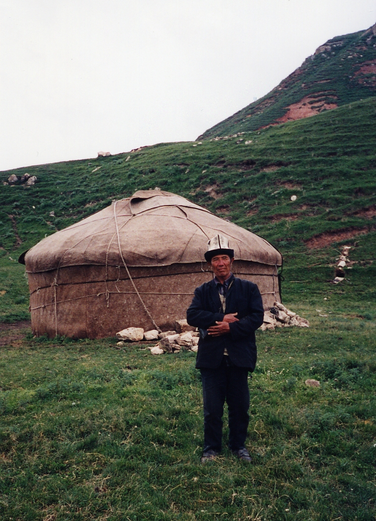 Photo: Soman